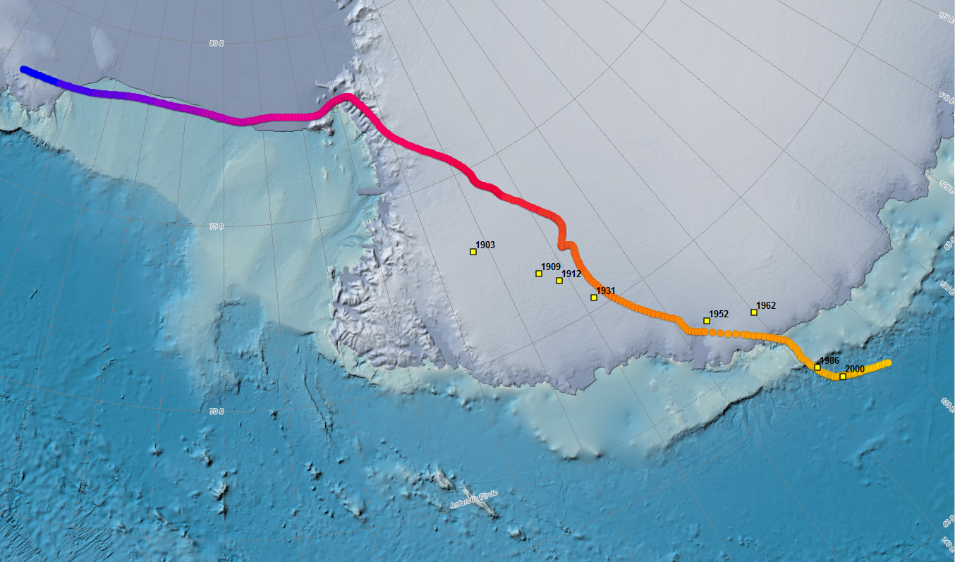 Map showing the position of the south magnetic dip pole as it has wandered over the past four centuries.